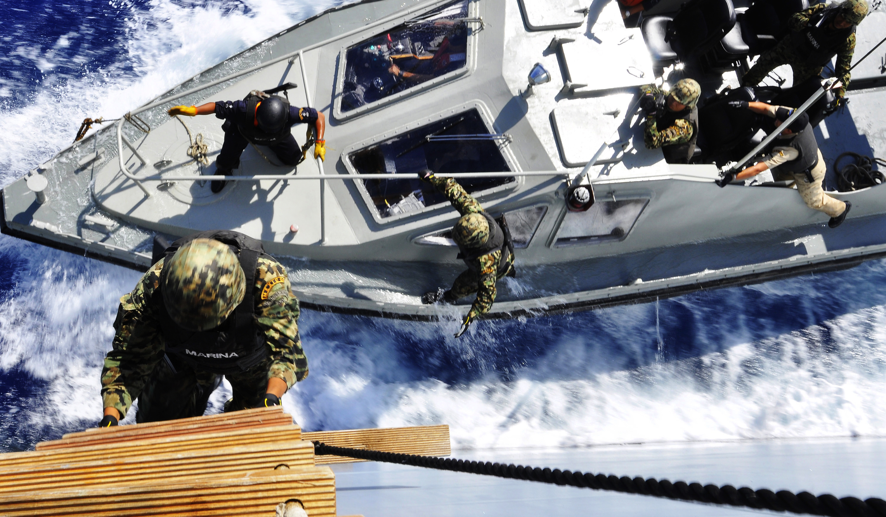 ATLANTIC OCEAN (April 26, 2009) A Mexican Navy visit, board, search and seizure team member climbs a Jacob's ladder to the deck of the Federal Republic of Germany combat support ship Frankfurt am Main (AM 1412) during a boarding training exercise during the 50th iteration of UNITAS Gold. UNITAS is a multinational maritime exercise with forces from Argentina, Brazil, Canada, Chile, Colombia, Equador, Germany, Mexico, Peru, the United States and Uruguay practicing Naval tactics in a joint forces environment. (U.S. Navy photo by Coast Guard Petty Officer Seth Johnson/Released